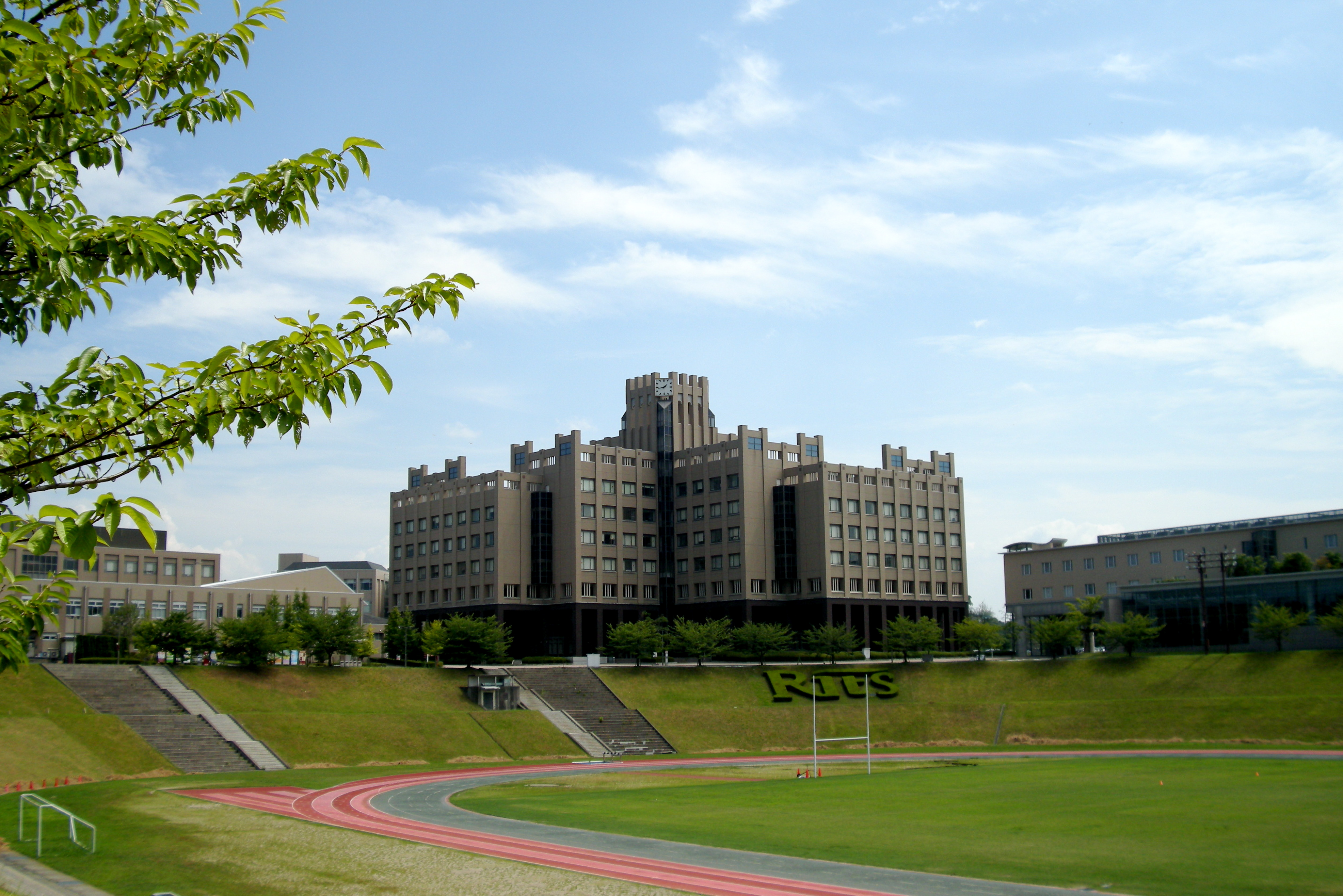 Across Wing and Quince Stadium, Ritsumeikan University)